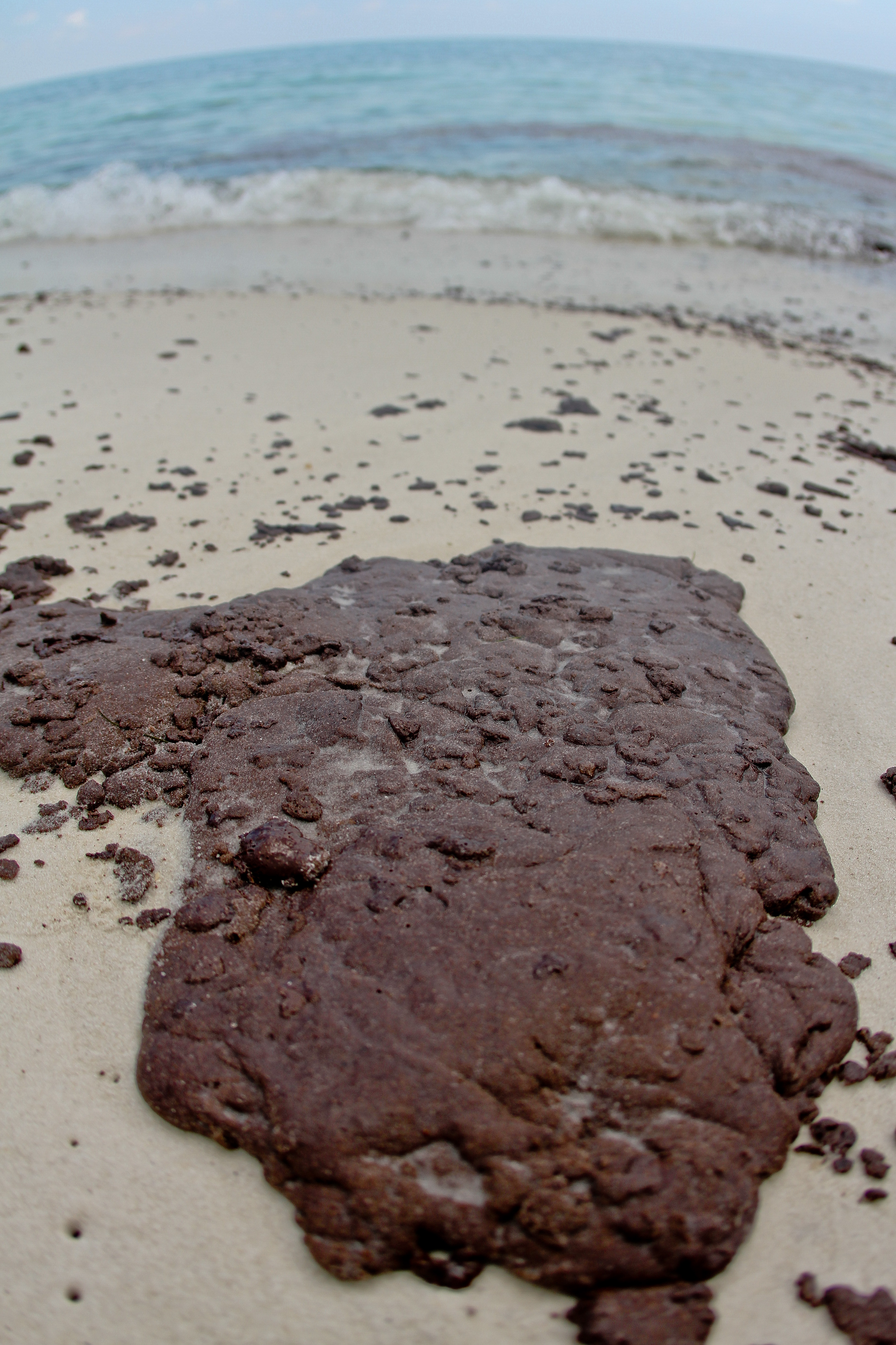 Tar balls are seen washed ashore on Okaloosa Island in Fort Walton Beach, Florida on June 16, 2010.